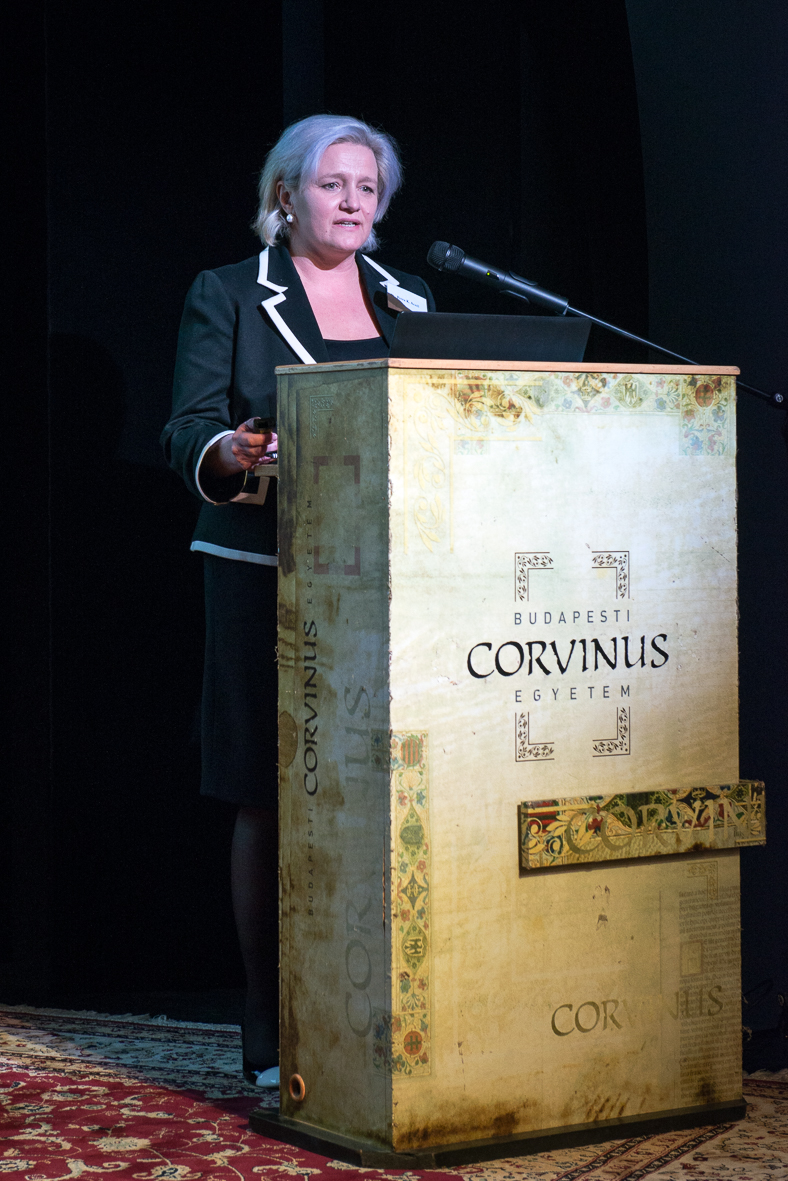 Dr. Petra Aczél, Head of the Research Centre, gave a lecture at the International Conference of the Research Centre on 23rd March, 2018, Budapest